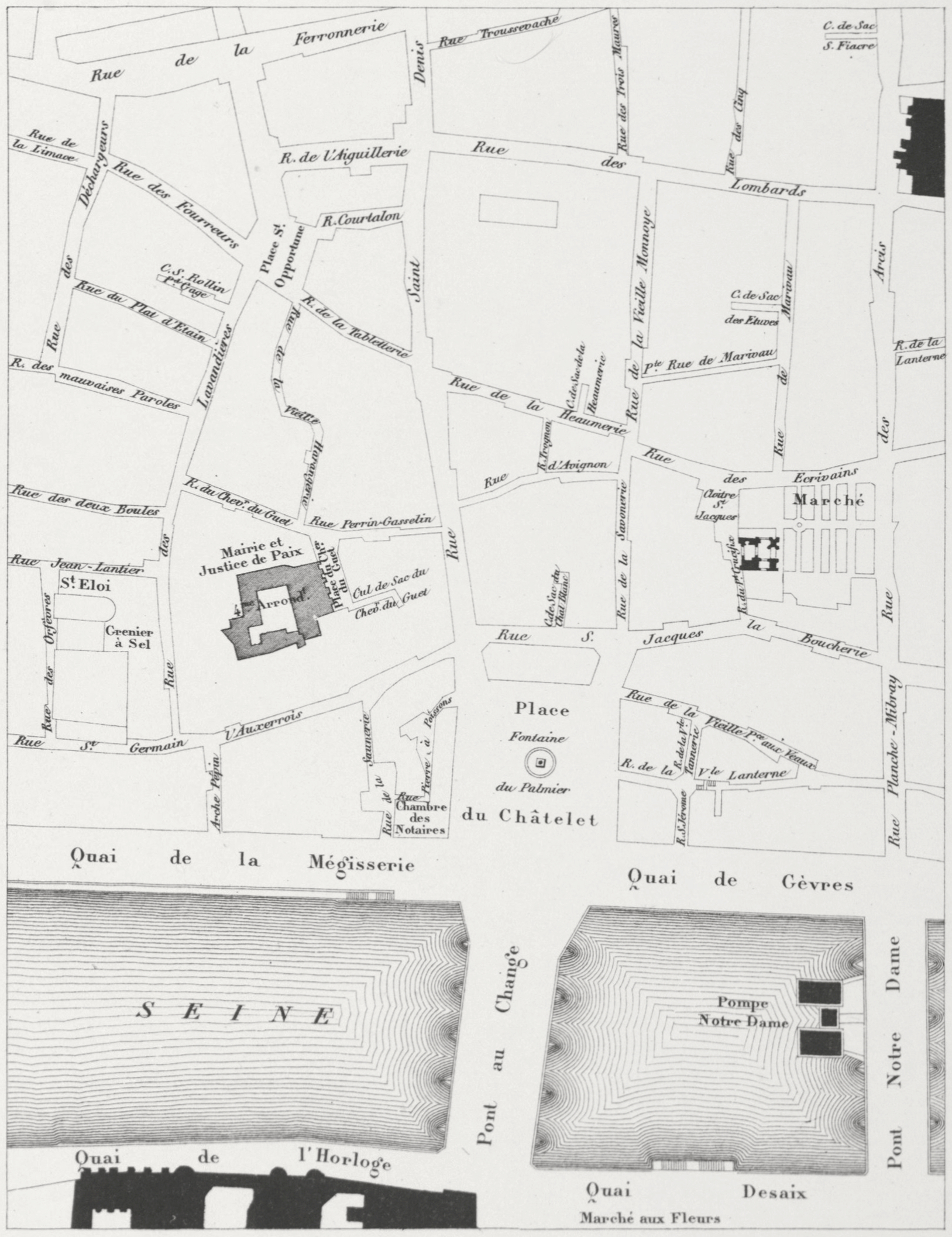 Aerial plans of the Quartier du Châtelet. There are two views: the one on the left shows the area in 1750; the one on the right shows the area in 1836. The overlay also shows the same area in 1876.